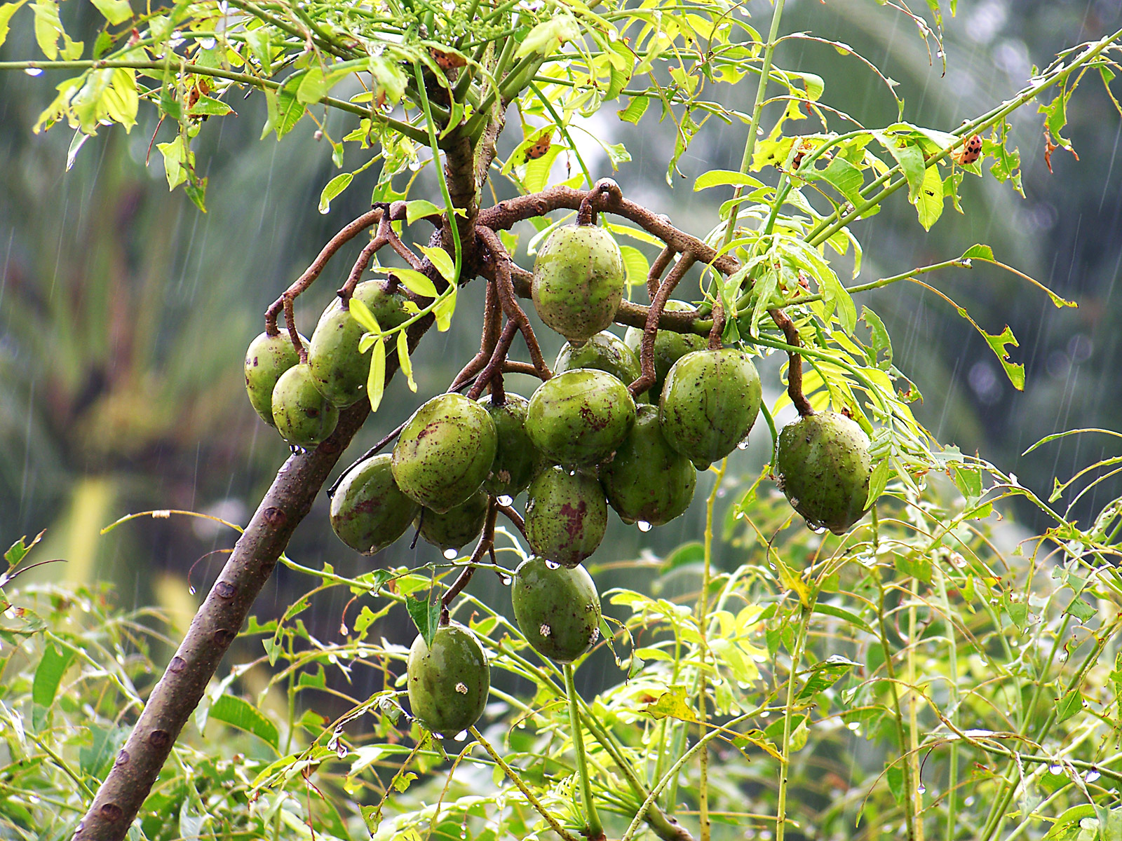 This photo was taken in Rajshahi (Bangladesh).